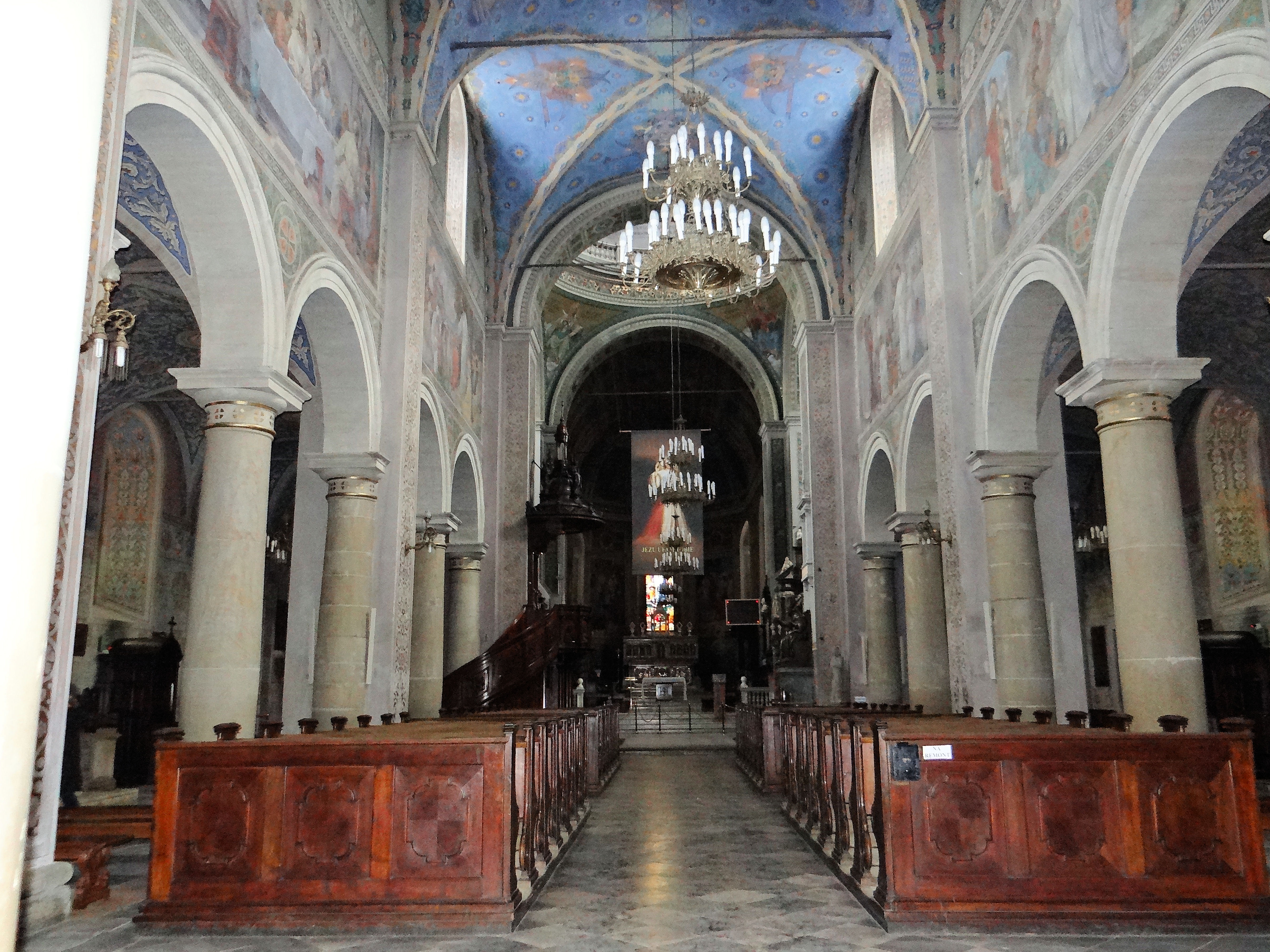 Interior of Płock Cathedral